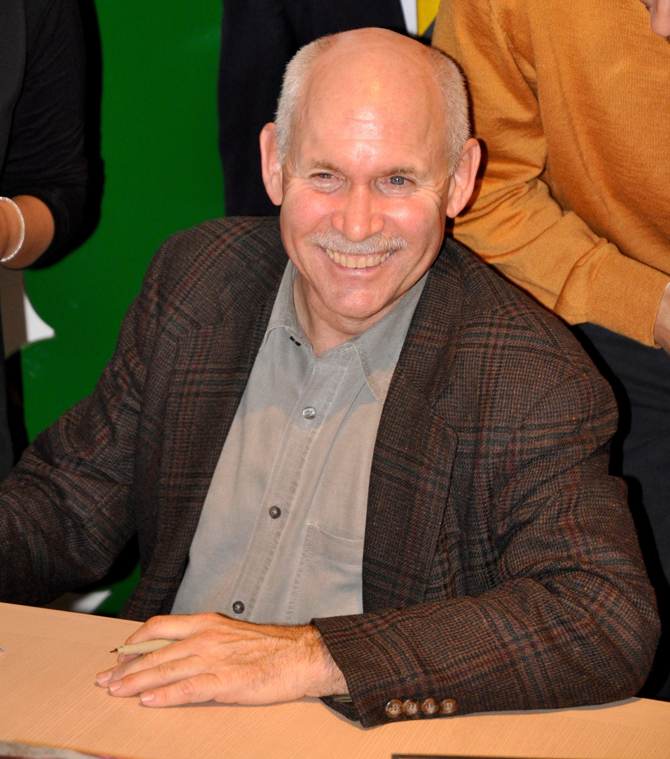 Steve McCurry in Bologna, November 2009